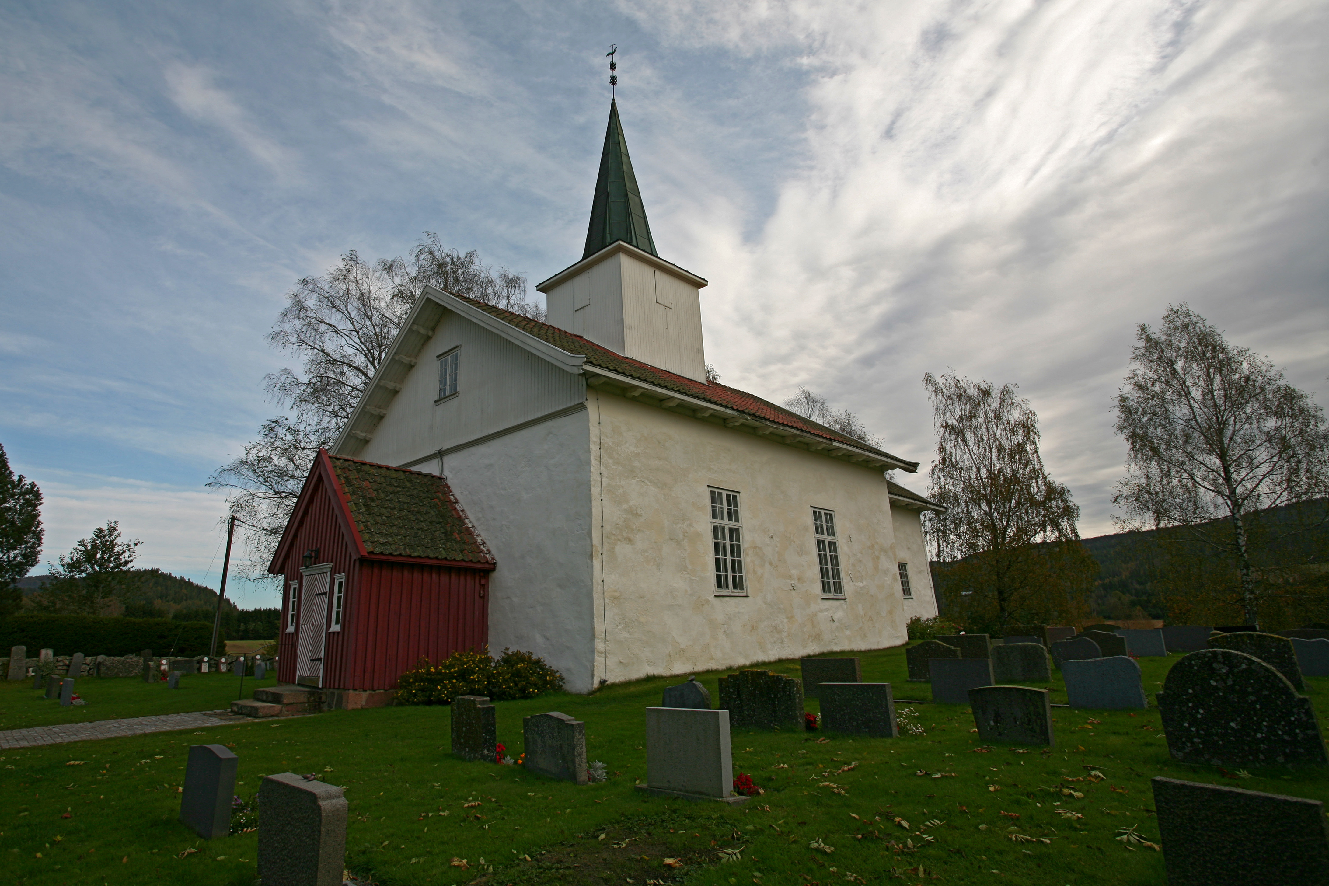 Picture of Styrvoll kirke (Vestfold - Norway)